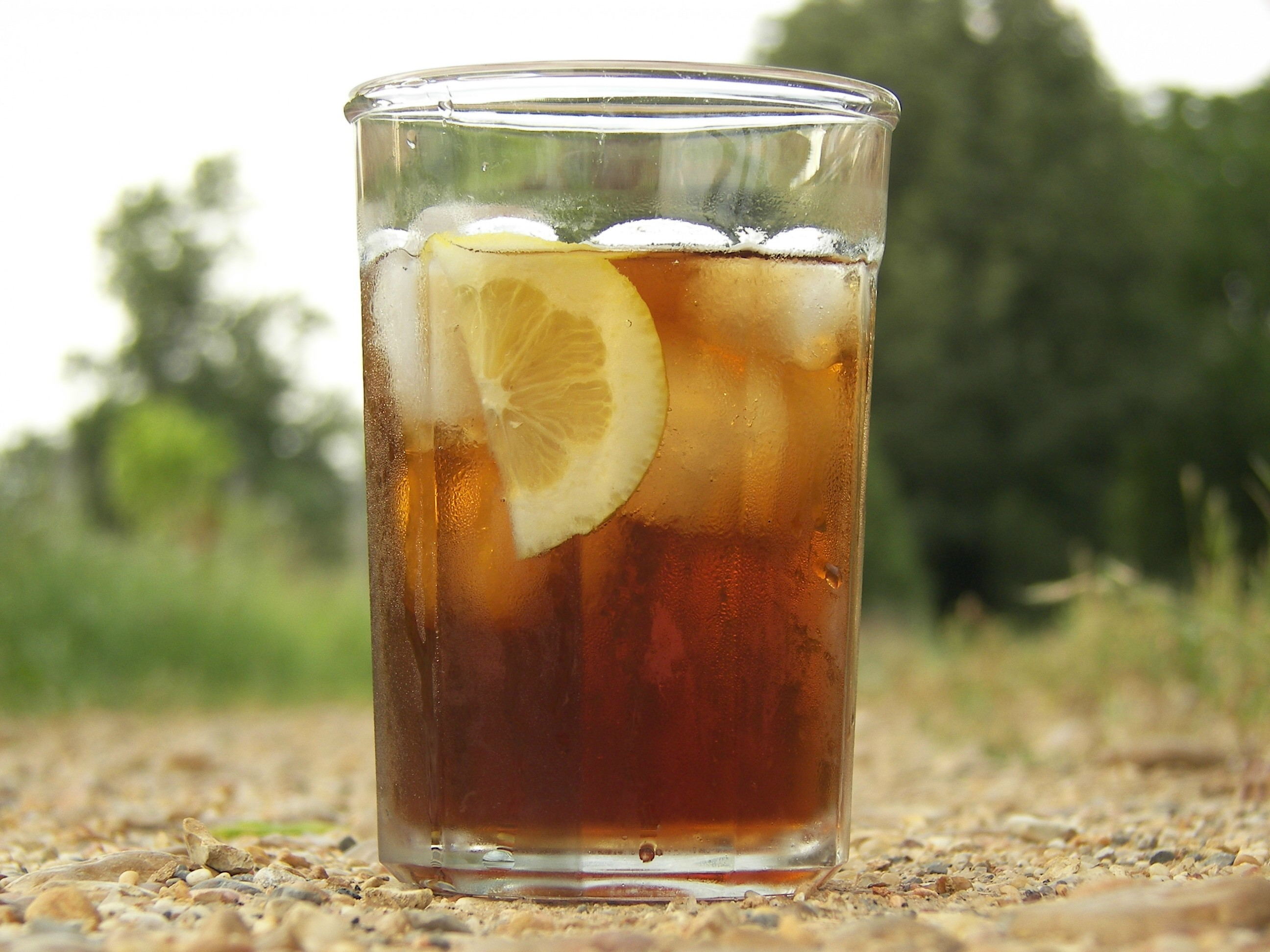 A cool Glass of Ice tea on a hot summer day ..